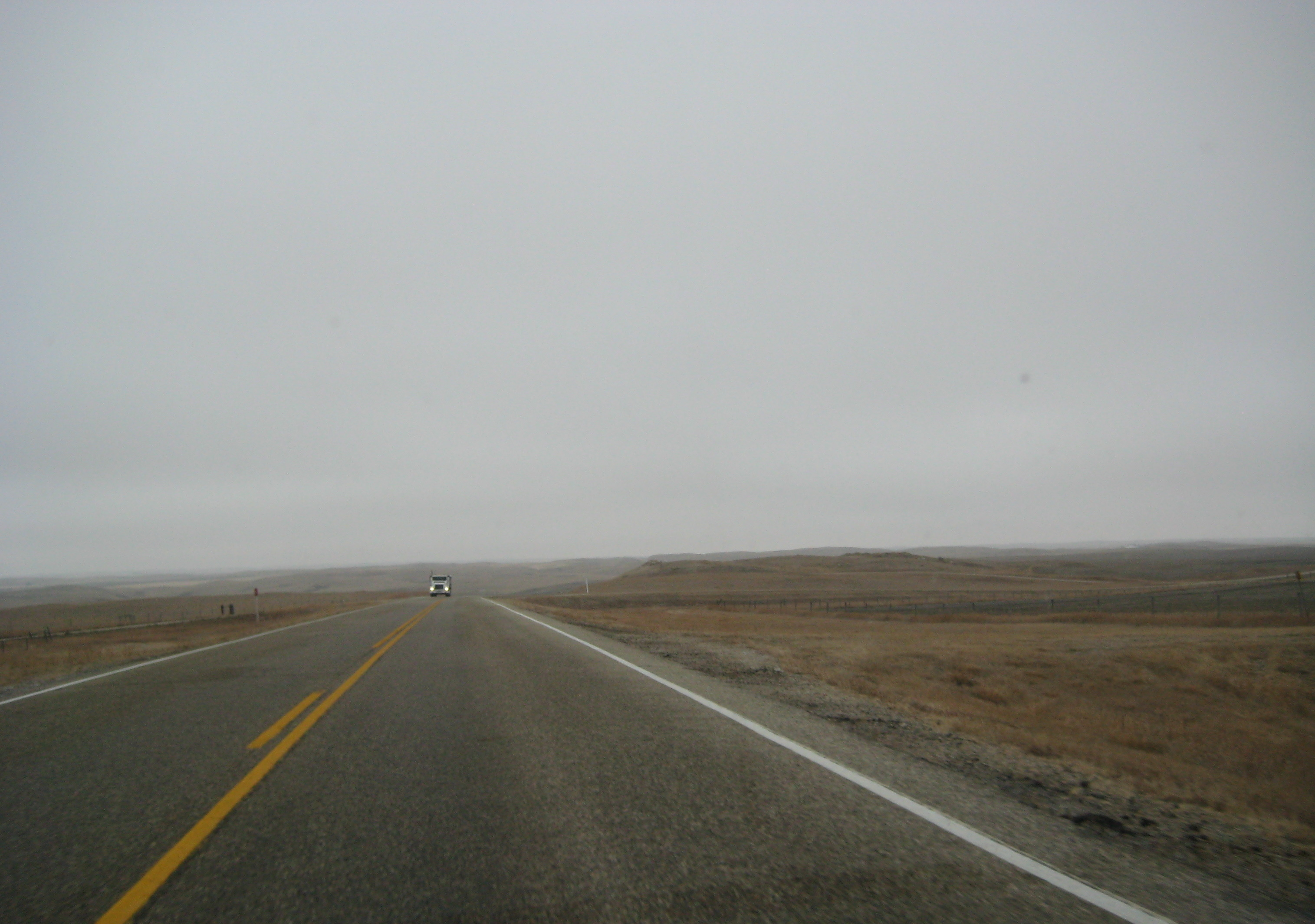 The Road to Assiniboia Saskatchewan